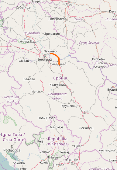 OpenStreeMap of State Road 14 in Serbia.